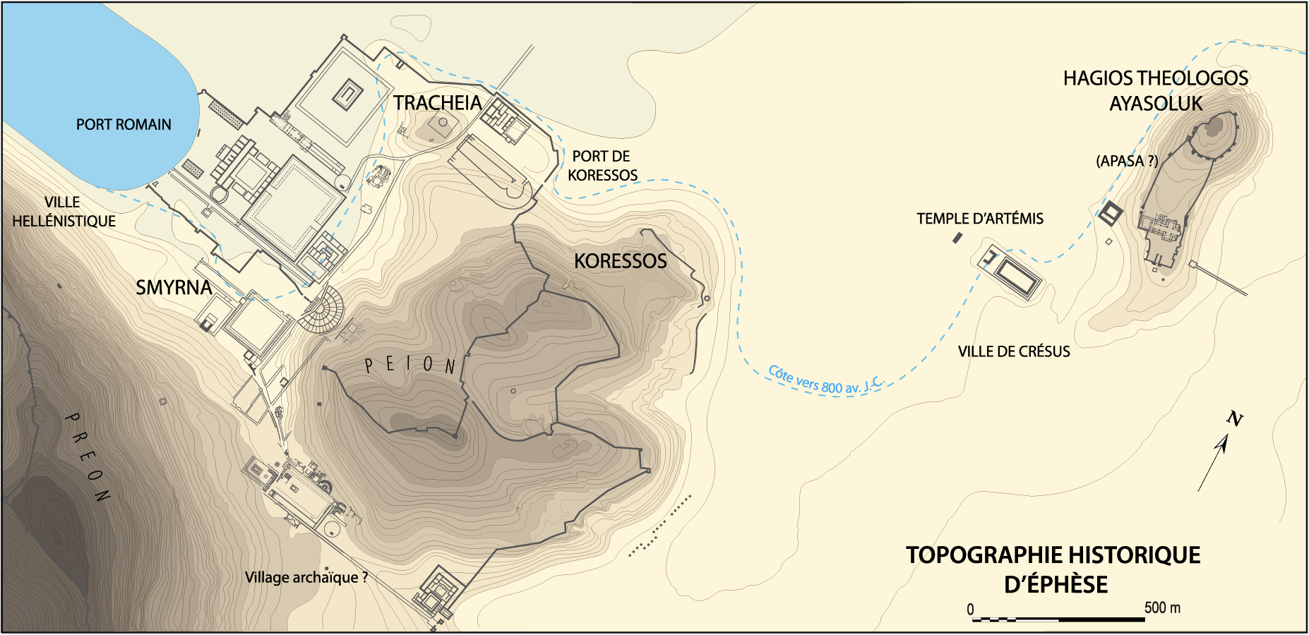 Historical topography of Ephesos. Geographical data from P. Scherrer (ed.), Ephesos, The New Guide, Selçuk, 2000.